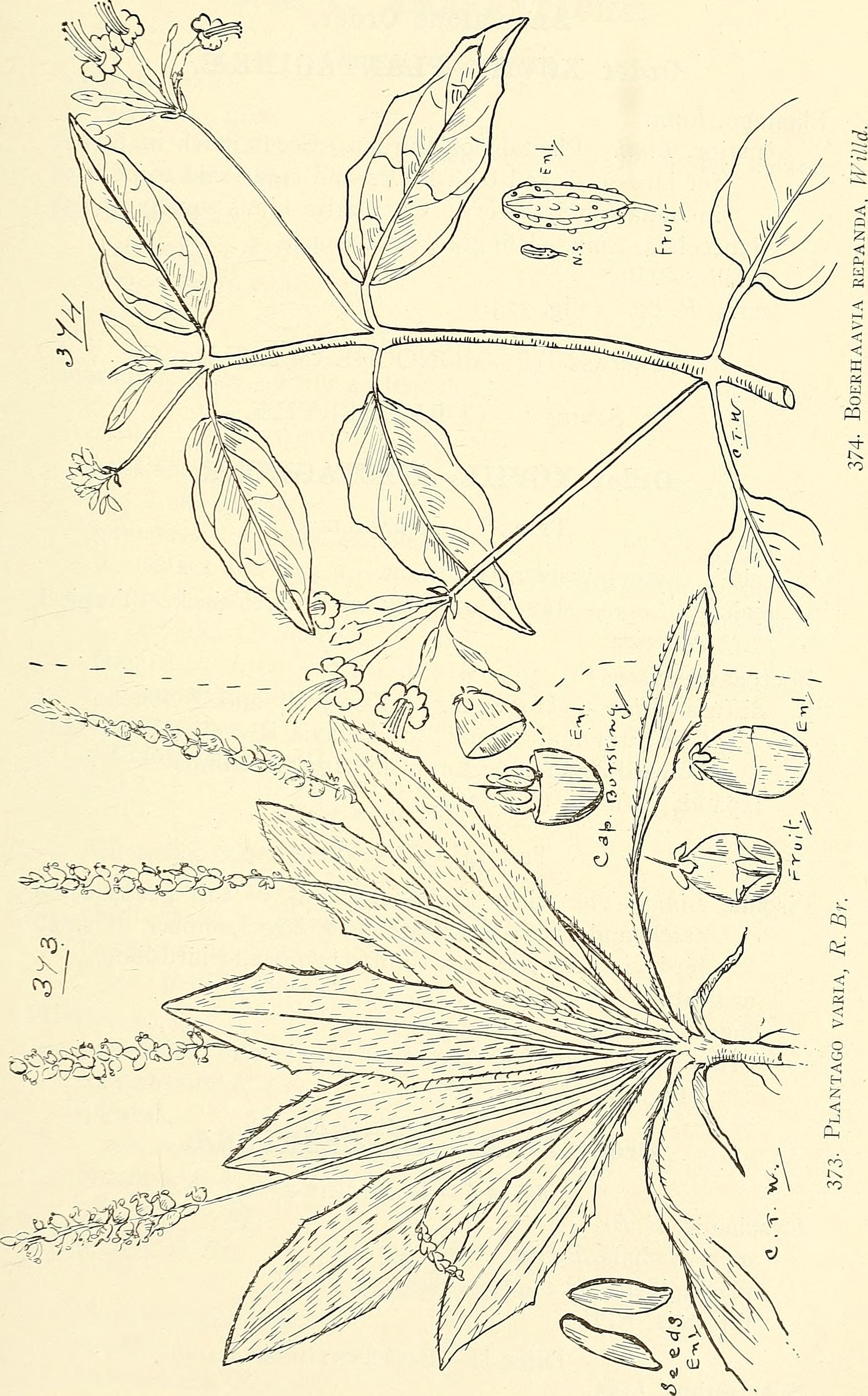 Title: Comprehensive catalogue of Queensland plants, both indigenous and naturalised. To which are added, where known, the aboriginal and other vernacular names; with numerous illustrations, and copious notes on the properties, features, &c., of the plants Year: 1909 (1900s) Authors: Bailey, Frederick Manson, 1827-1915 Subjects: Botany Publisher: Brisbane, A. J. Cumming, government printer Text Appearing Before Image: 372. Teucrium ajugaceum, Bail, et F. v. M. XCVII. PLANTAGINEiE.—XCVIII. NYCTAGINEyE. 395 Text Appearing After Image: 39S XCVII. PLANTAGINE.E.—XCIX. ILLECEBRACE^. Anomalous Order.Order XCVII.—PLANTAGINEiE. Plan (ago, Linn. *major, Linn.—Plantain of Europe. Seeds much in favourfor bird-seed, and both leaves and seeds said to be usedin India for dysentery. Our native kinds equally useful. *lanceolata, Linn.—Rib-grass of Europe. debilis, R. Br. varia, R.Br. (Fig. 373.) Subclass III—MONOCHLAMYDE^E.Series L—CURVEMBRYEiE. Order XCVIIL—NYCTAGINEJE. Tribe I.—Mirabilie/E. *Mirabilis, Linn.—Fruit a Diclesium. jalapa, Linn.—Marvel of Peru or Four-oclock. TropicalAmerica.Boerhaavia, Linn. diffusa, Linn. — Hogweed. Koo-joo and Goitcho ofCloncurry and A-mi of Batavia River natives. Maybe used as an expectorant in cases of asthma,repanda, Willd. (Fig. 374.) Tribe II.—Pisonie^e. Pisonia, Linn.-—The sticky fruits of plants of this genus oftencatch and cause the death of a large number of smallbirds, insects, &c, in a similar manner to bird-lime. aculeata, Linn. inermis, Forst. Brunoniana